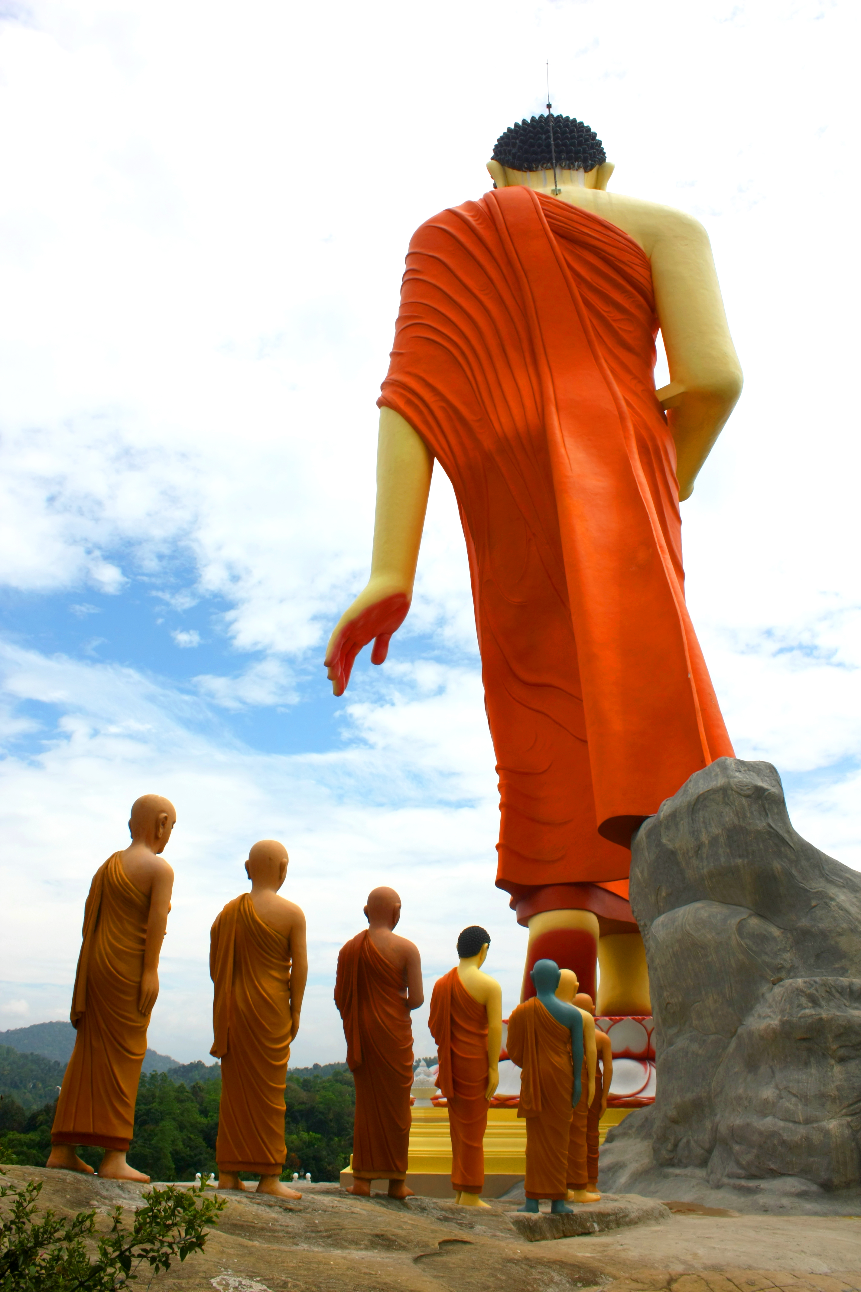 The world’s tallest walking statue of the Buddha at Ranawana Temple in Pilimatalawa, Kandy district, Sri Lanka. 80-foot tall statue with statues of Buddha's followers.